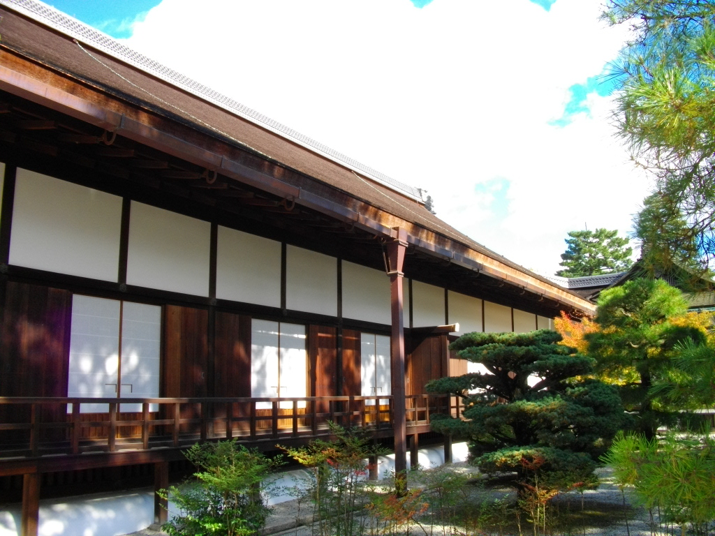 Wakamiya-Himemiya Goten